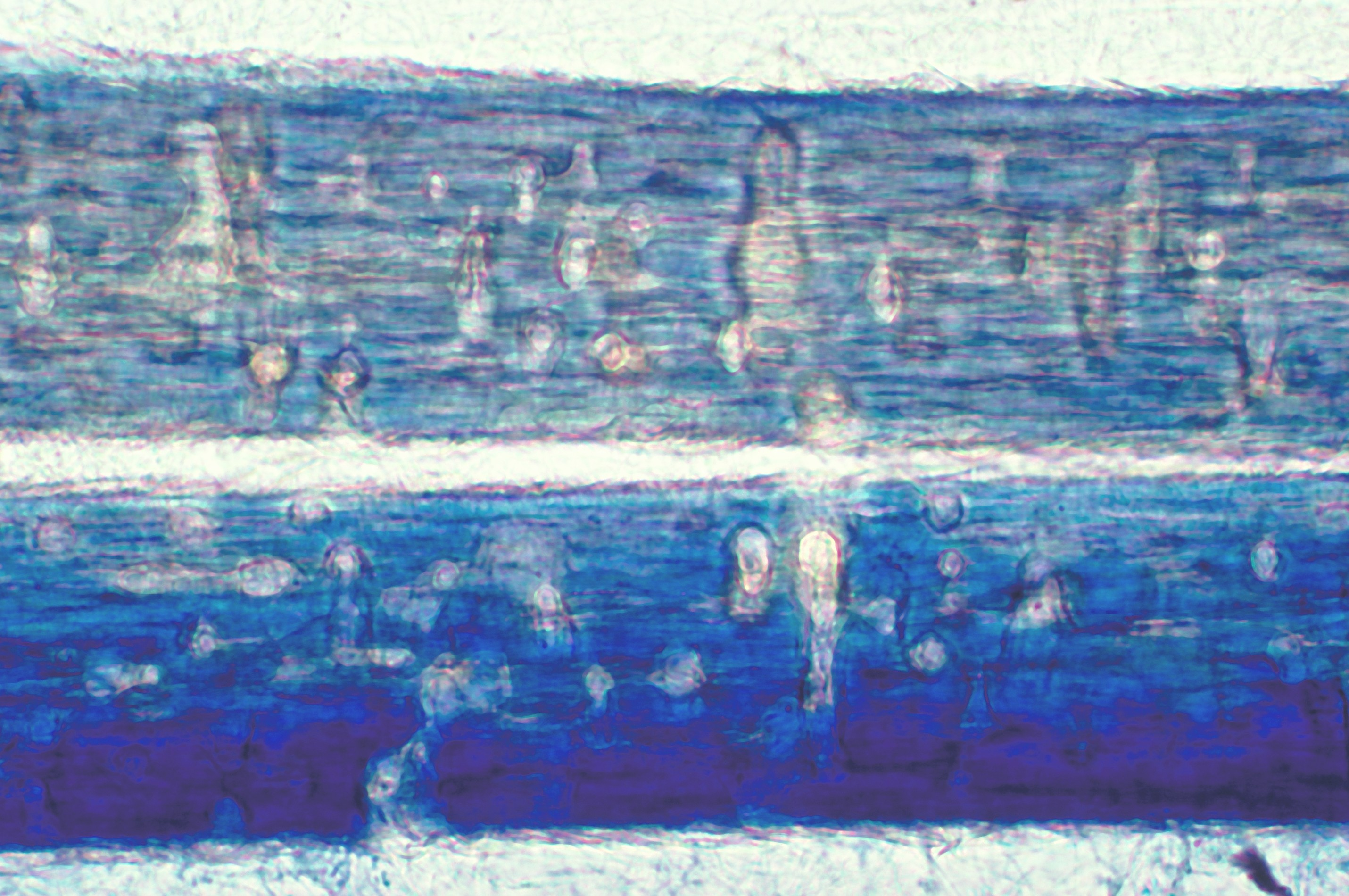 hair perforations caused by the fungus Trichophyton mentagrophytes.